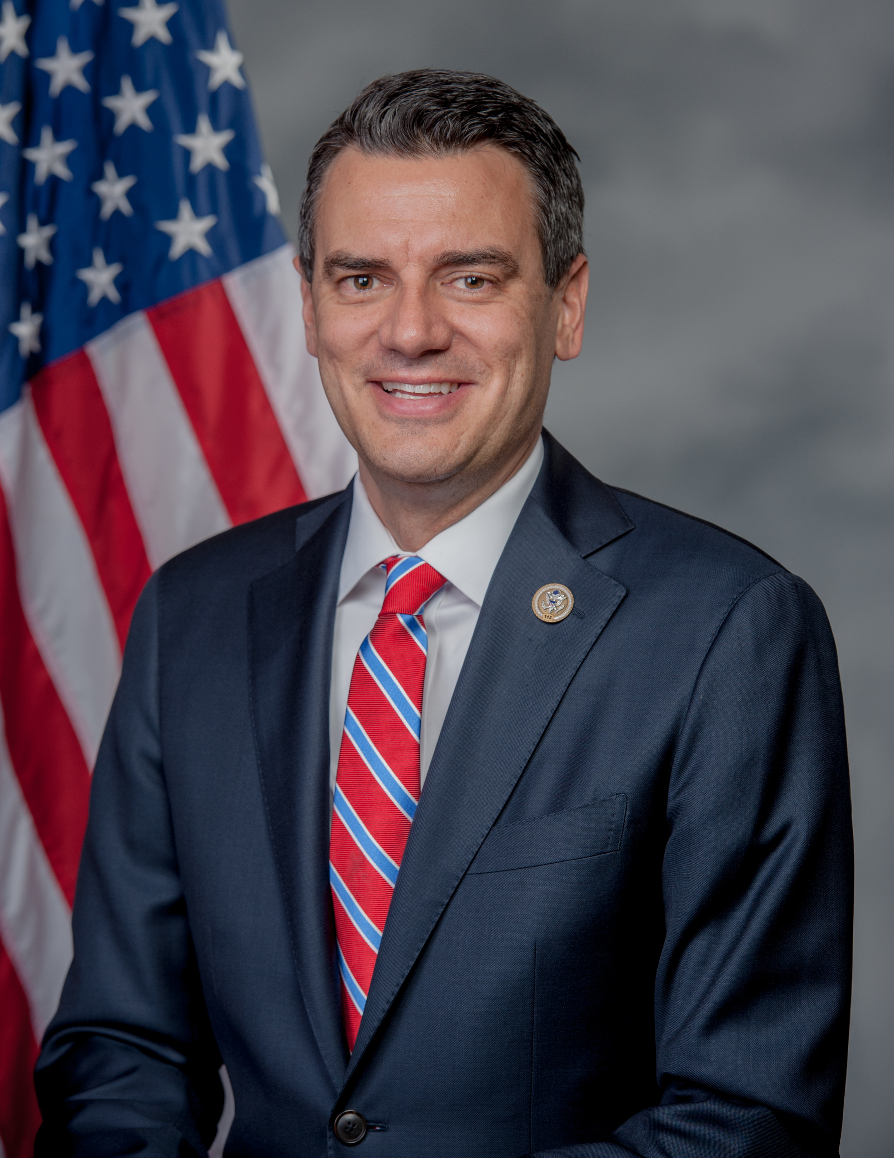 Kevin Yoder, 115th Congress official photo